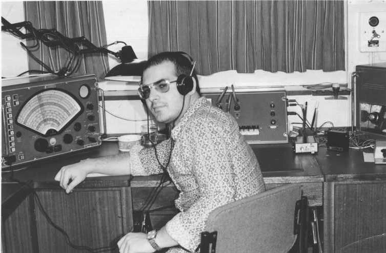 Snapshot of an radio officer in radio room on board of an italian merchant ship in front of an shortwave receiver